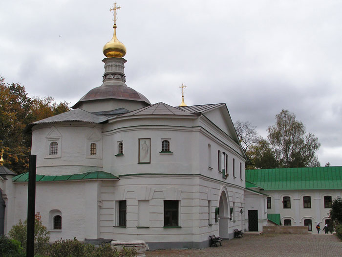 Dmitrov. Borisoglebsky Monastery. Nikolskaya Church